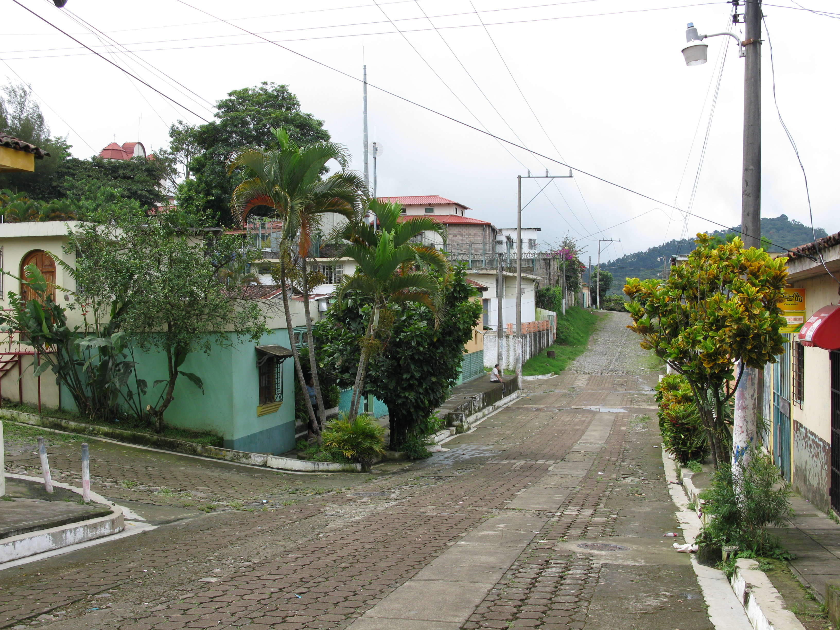 City street in Jayaque, La Libertad, El Salvador.